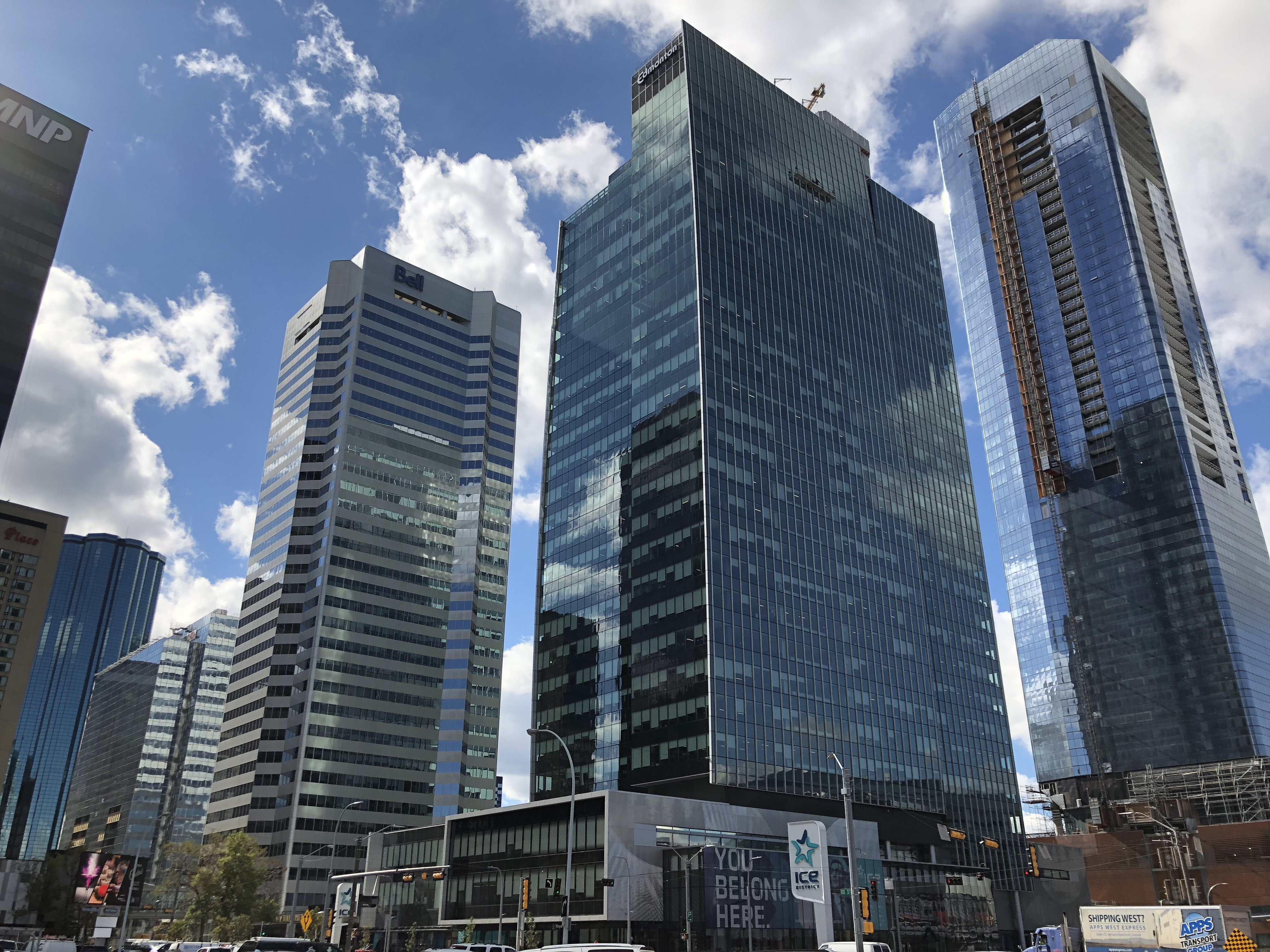 A cluster of some of Edmonton's tallest buildings